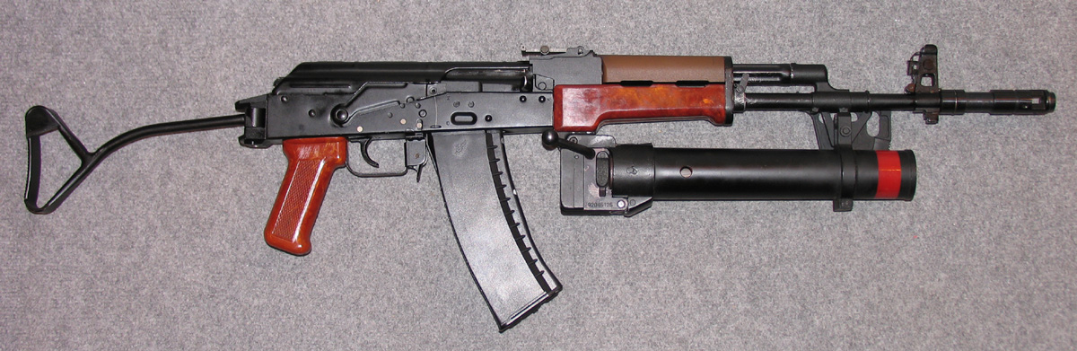 kbk wz. 1988 Tantal, with Pallad underslug grenade launcher